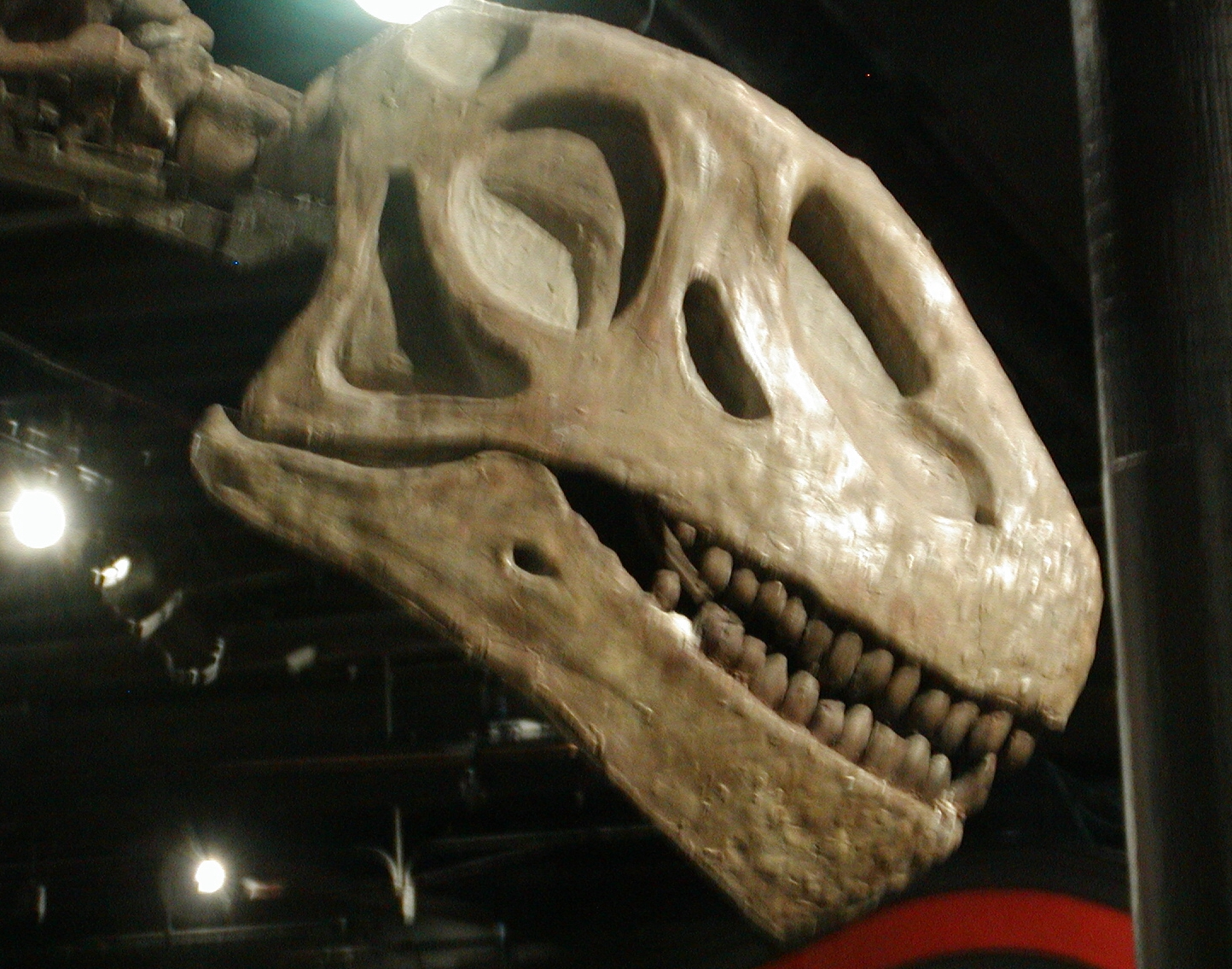 Photo of skull of Omeisaurus tianfuensis from the Beijing Museum on view at the Miami Museum of Science.